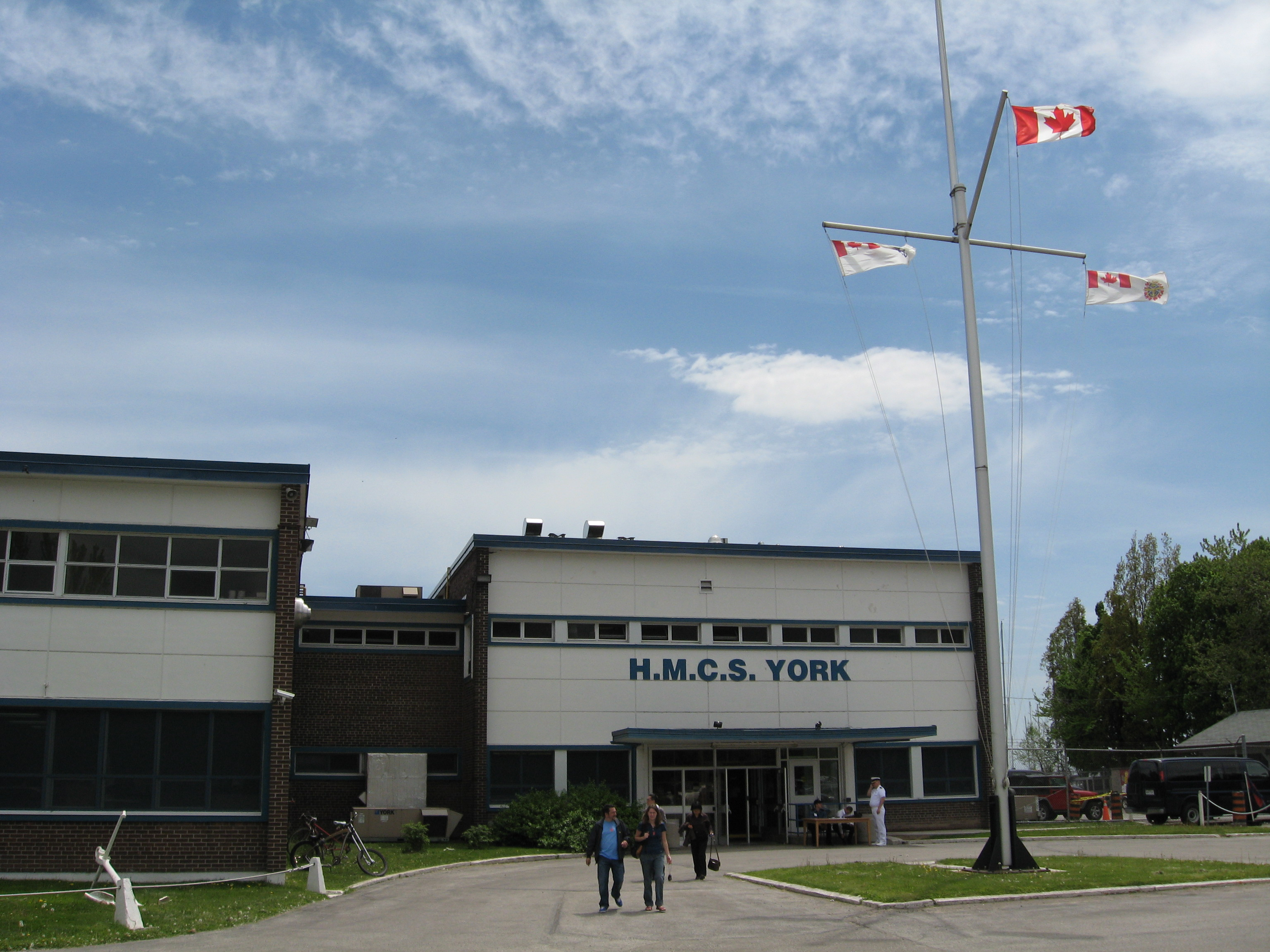 HMCS York building, on the waterfront in Toronto.